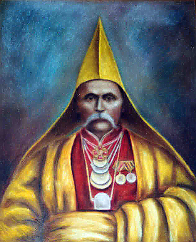 A photograph of a portrait painting of Lama Mönke Bormanshinov (1855-1919), the Head Lama of the Don Kalmyks (Buzava) from 1903 until his death in 1919, by Alexander Burtschinow. Lama Bormanshinov is wearing the traditional yellow hat and medals given to him by the Tsar Nicholas II. Upon completion of the portrait, Mr. Burtschinow gave it to Soki Abushinov as an expression of his respect for Mr. Abushinov’s status as the eldest living person from the Bokshorgankna aimak. Mr. Abushinov passed on the portrait to his son, Basir, who then donated it to the Saksyusn Sune Monastery in the Republic of Kalmykia upon his death.